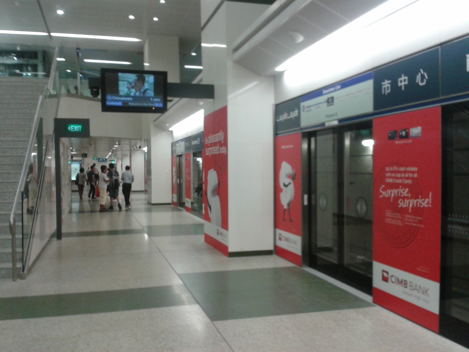 Taken during the DTL open house on December 7, 2013 at 1318 hrs (+8 GMT) in Singapore.